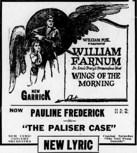 Newspaper advertisement for the American drama film Wings of the Morning (1919) with William Farnum, on page 11 of the April 8, 1920 Duluth Herald.